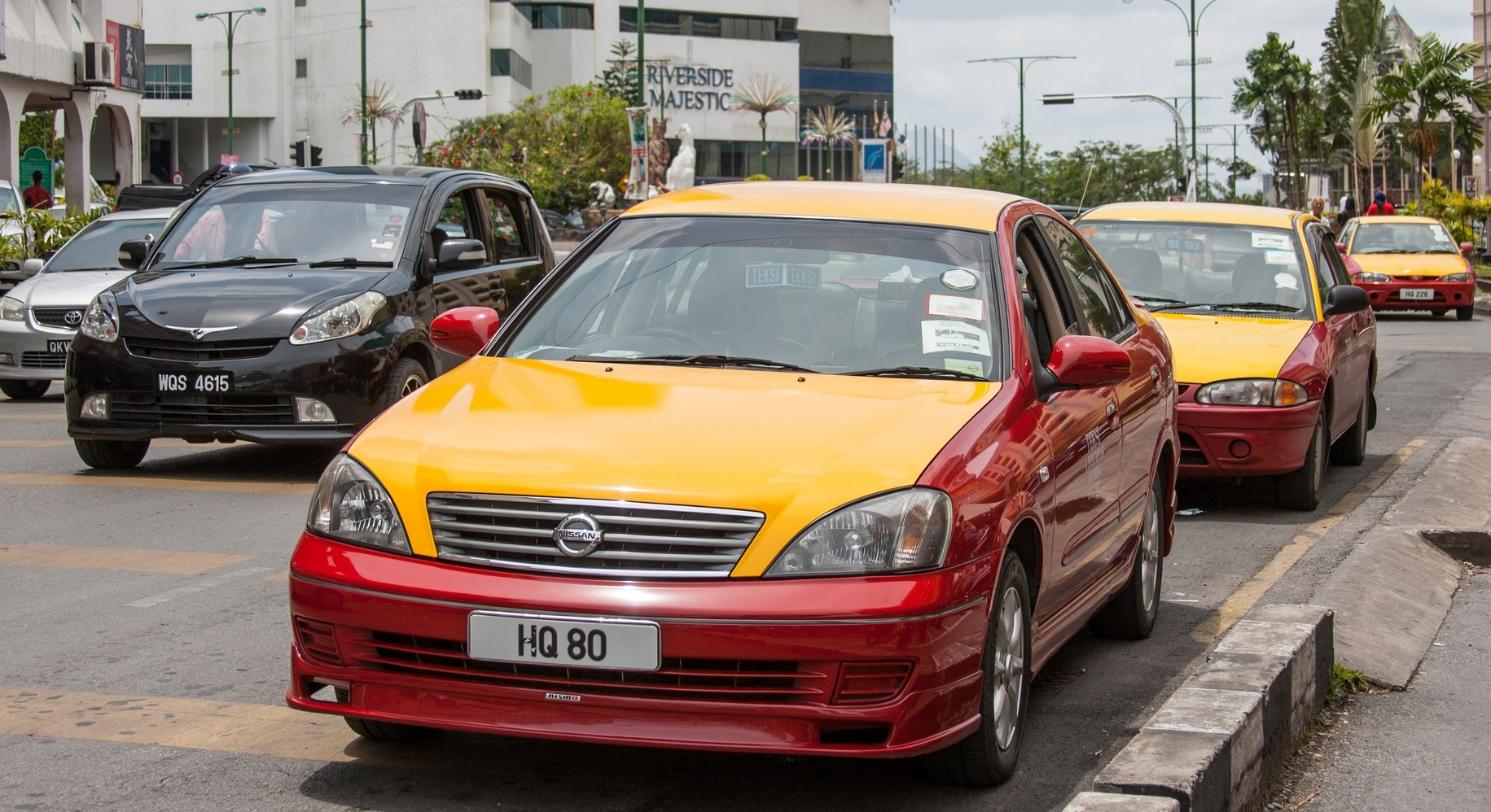 Taxi in Kuching, Sarawak, Malaysia